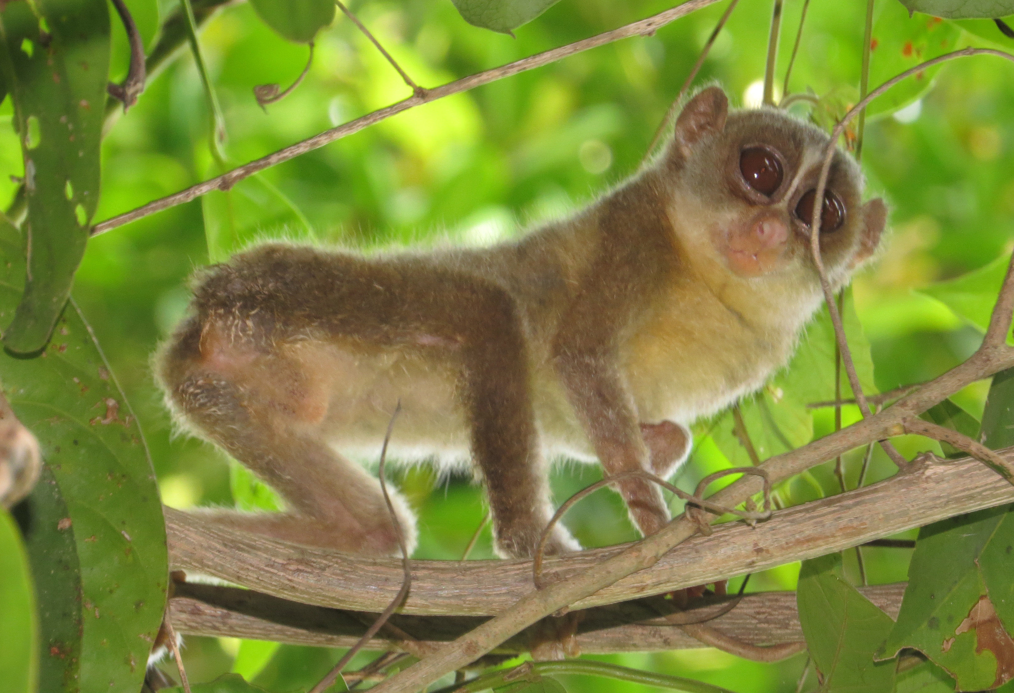 Loris malabaricus